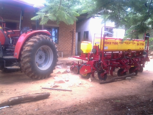 This is at the irrigation scheme workshop where farm equipment is kept ready for use.